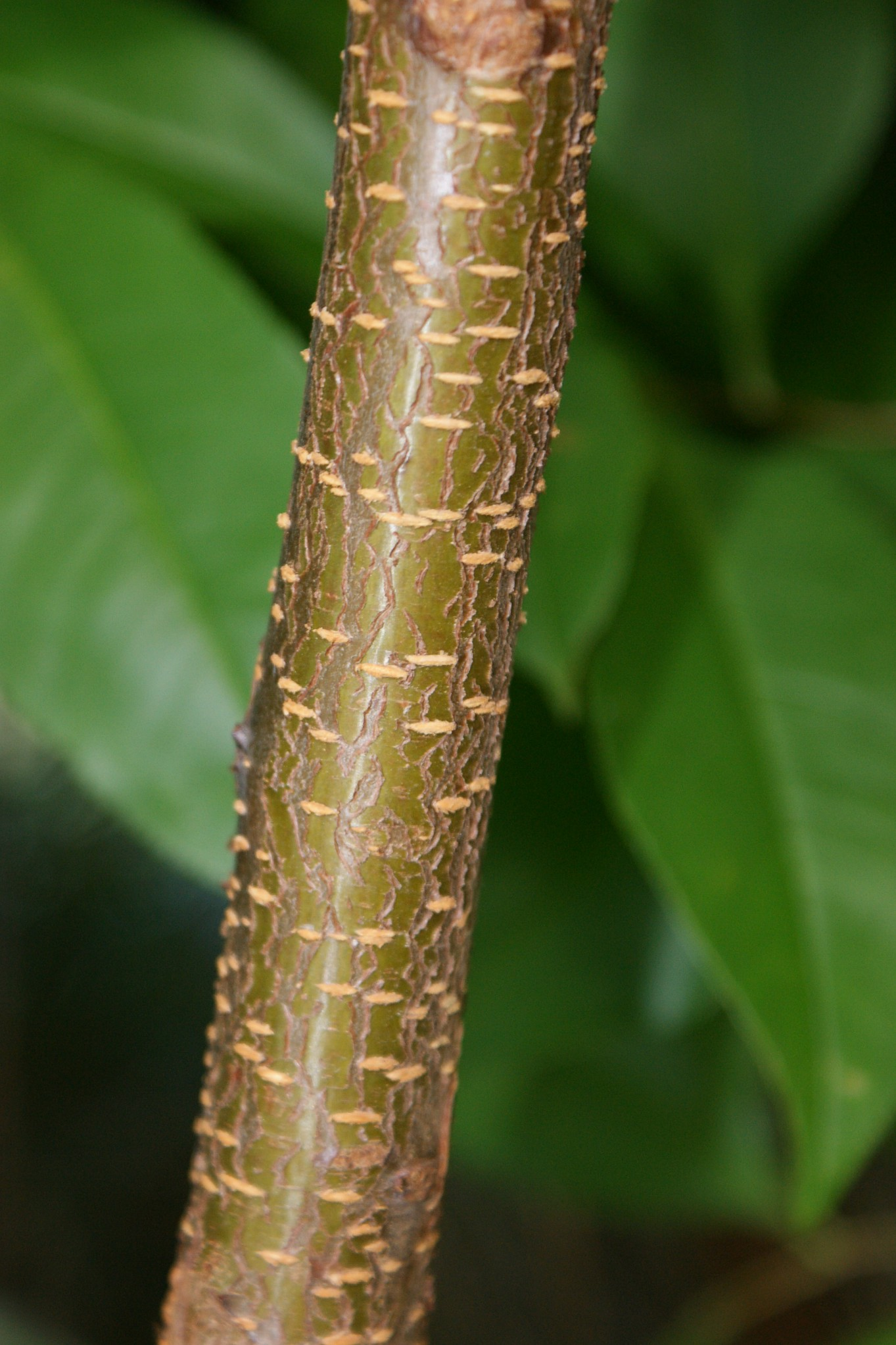 Bark on young stem of Prunus serotina